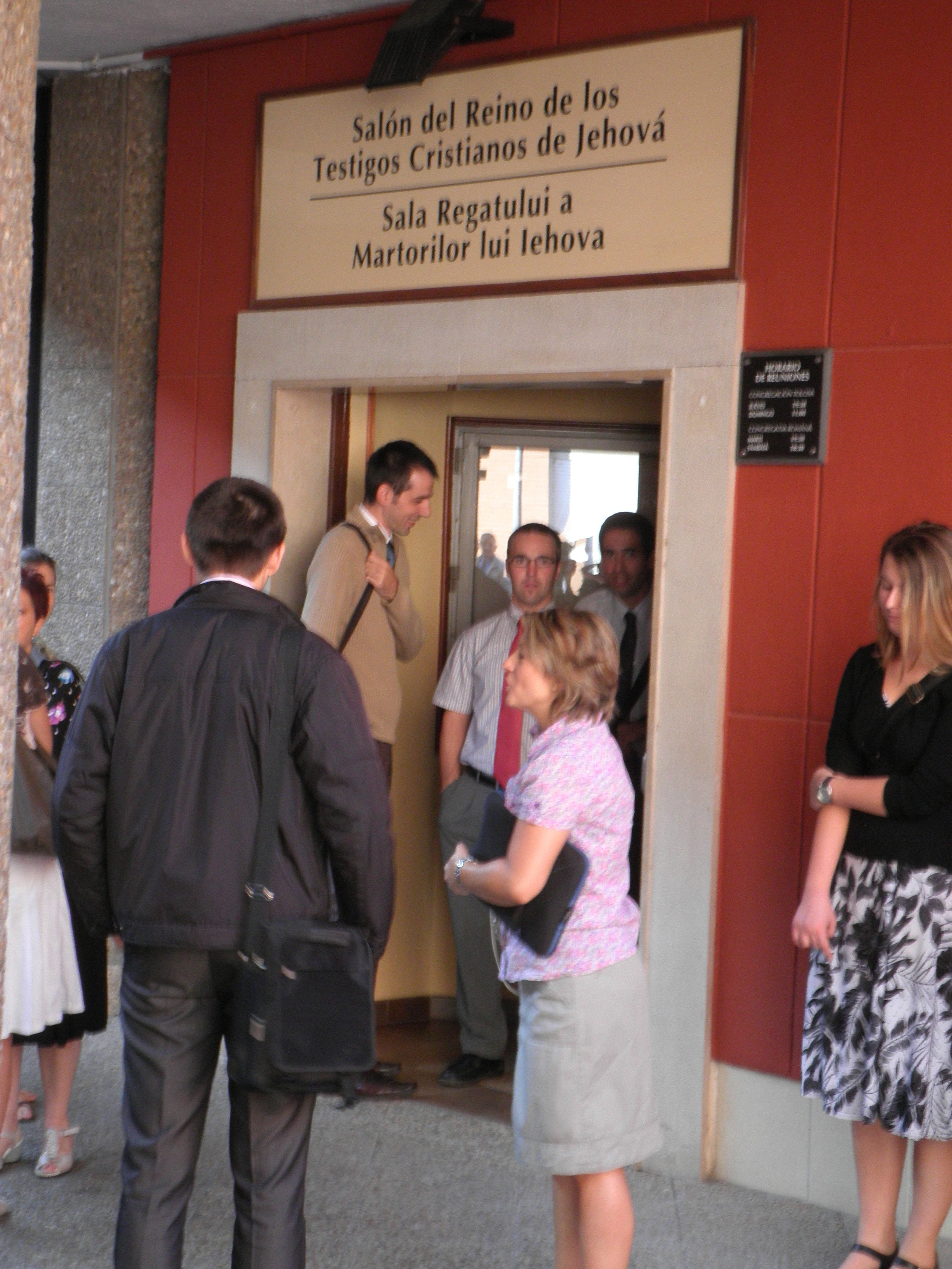 Kingdom Hall in Tolosa, Basque Country